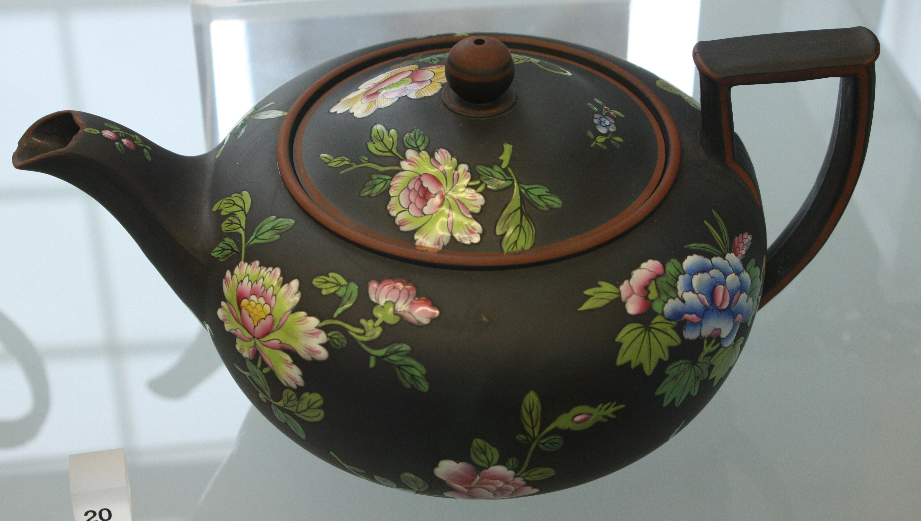 Teapot with Chinese Flowers Staffordshire, about 1820 Wedgwood\'s factory Black Basalt, the body probably thrown in a mould, with moulded spout and handle, painted in enamels. Collection ID: 26-1899 This photo was taken as part of Britain Loves Wikipedia in February 2010 by Valerie McGlinchey.